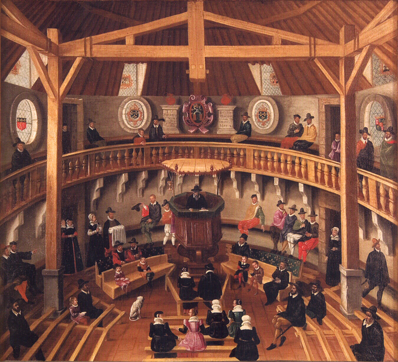 Temple de Lyon, Nommé paradis